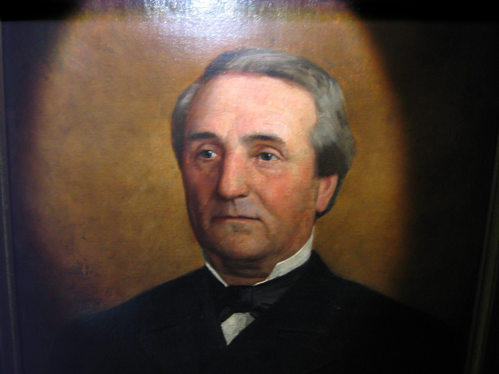 in Bünde, District of Herford, North Rhine-Westphalia, Germany.